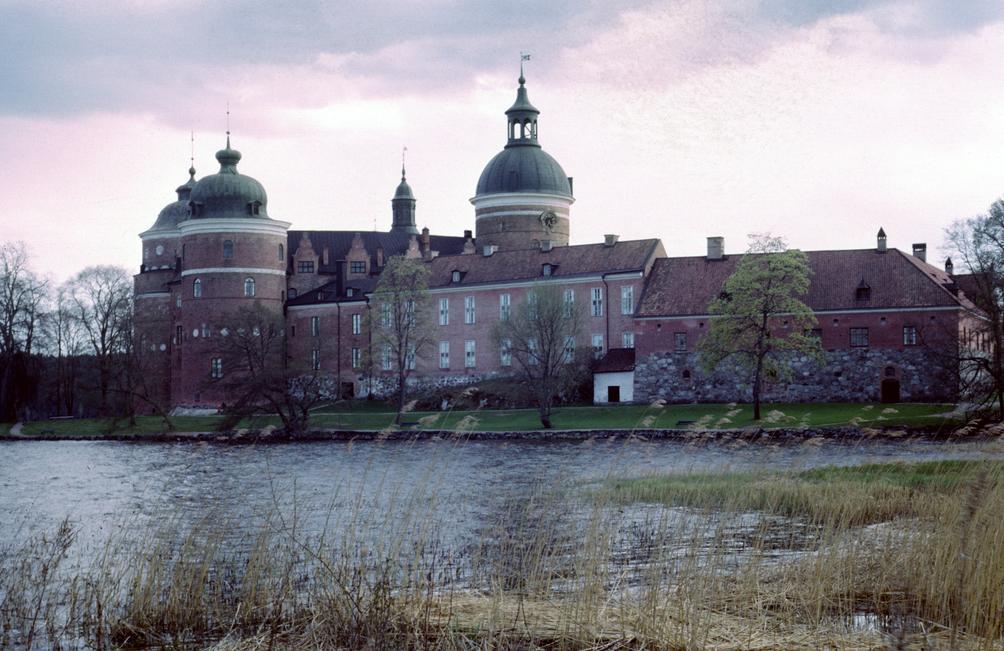 gripsholm castle built in 1537